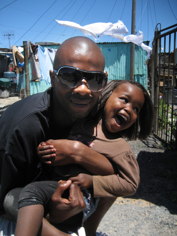 Welcome to Khaltsha_005